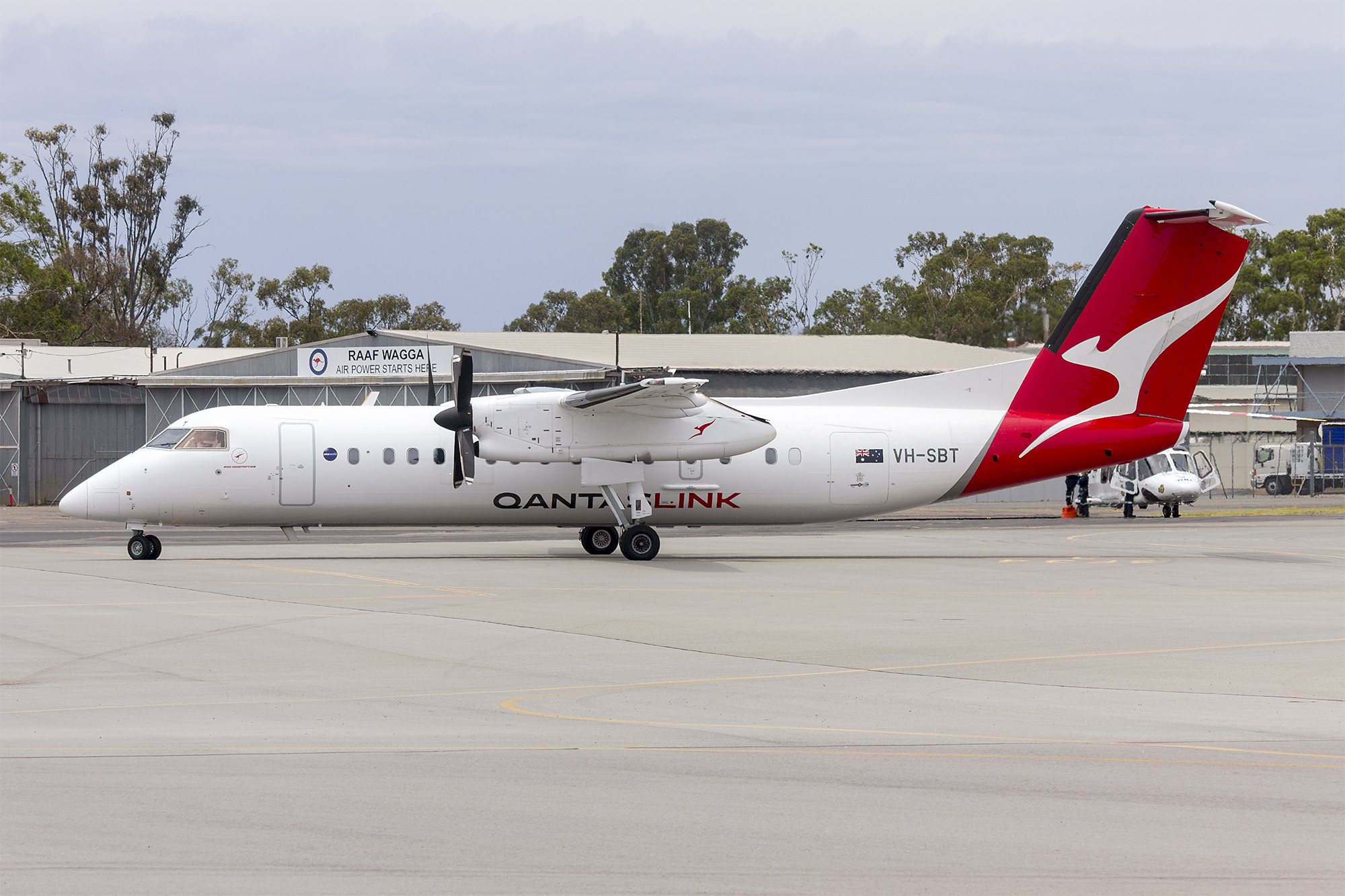 QantasLink (VH-SBT) Bombardier DHC-8-315Q Dash 8 taxiing at Wagga Wagga Airport.